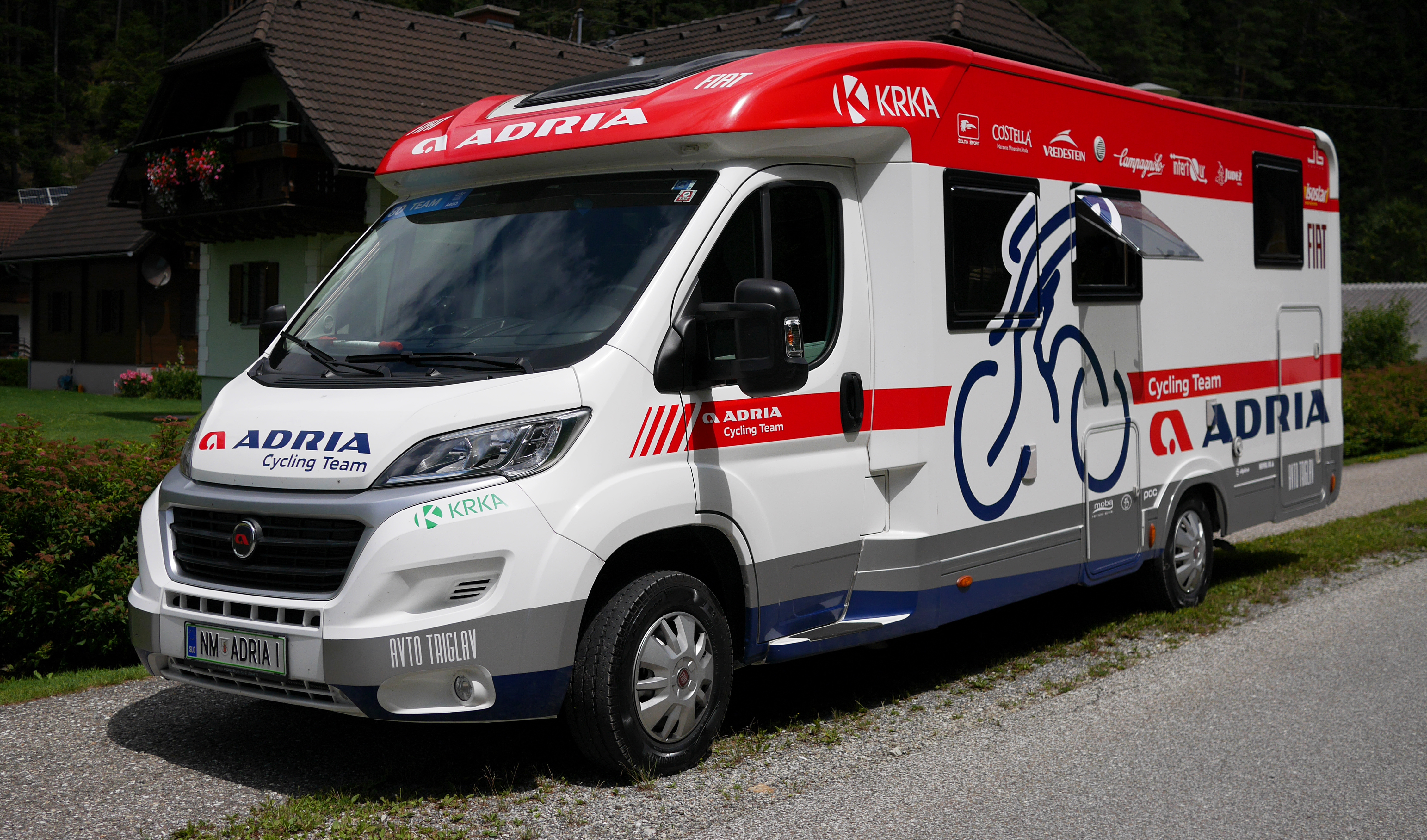 Adria Cycling Team mobile home, Tour of Austria 2018, Stage 6